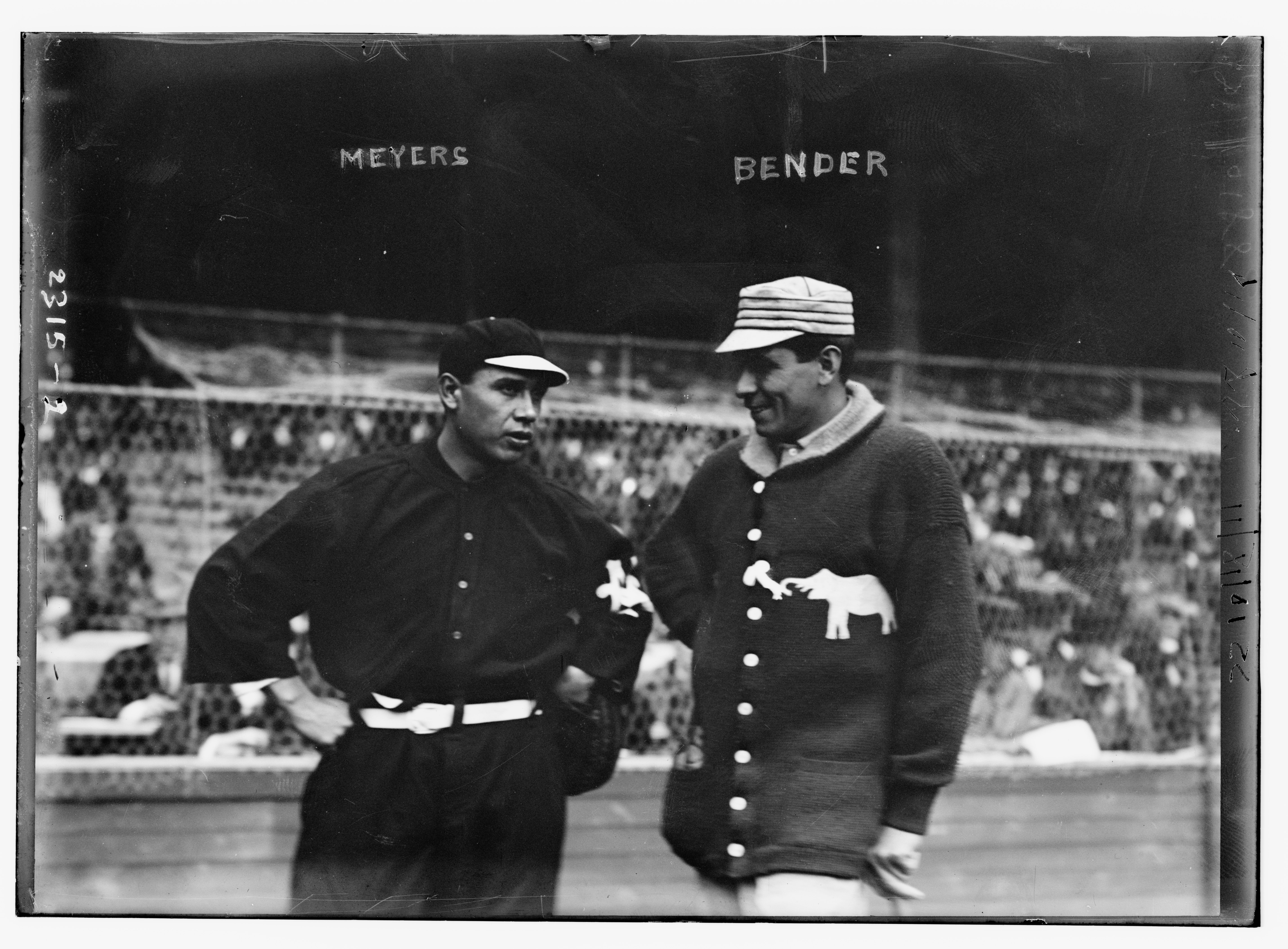 Title: Chief Meyers, New York, NL & Chief Bender, Philadelphia, AL at World Series (baseball) Abstract/medium: 1 negative : glass ; 5 x 7 in. or smaller.